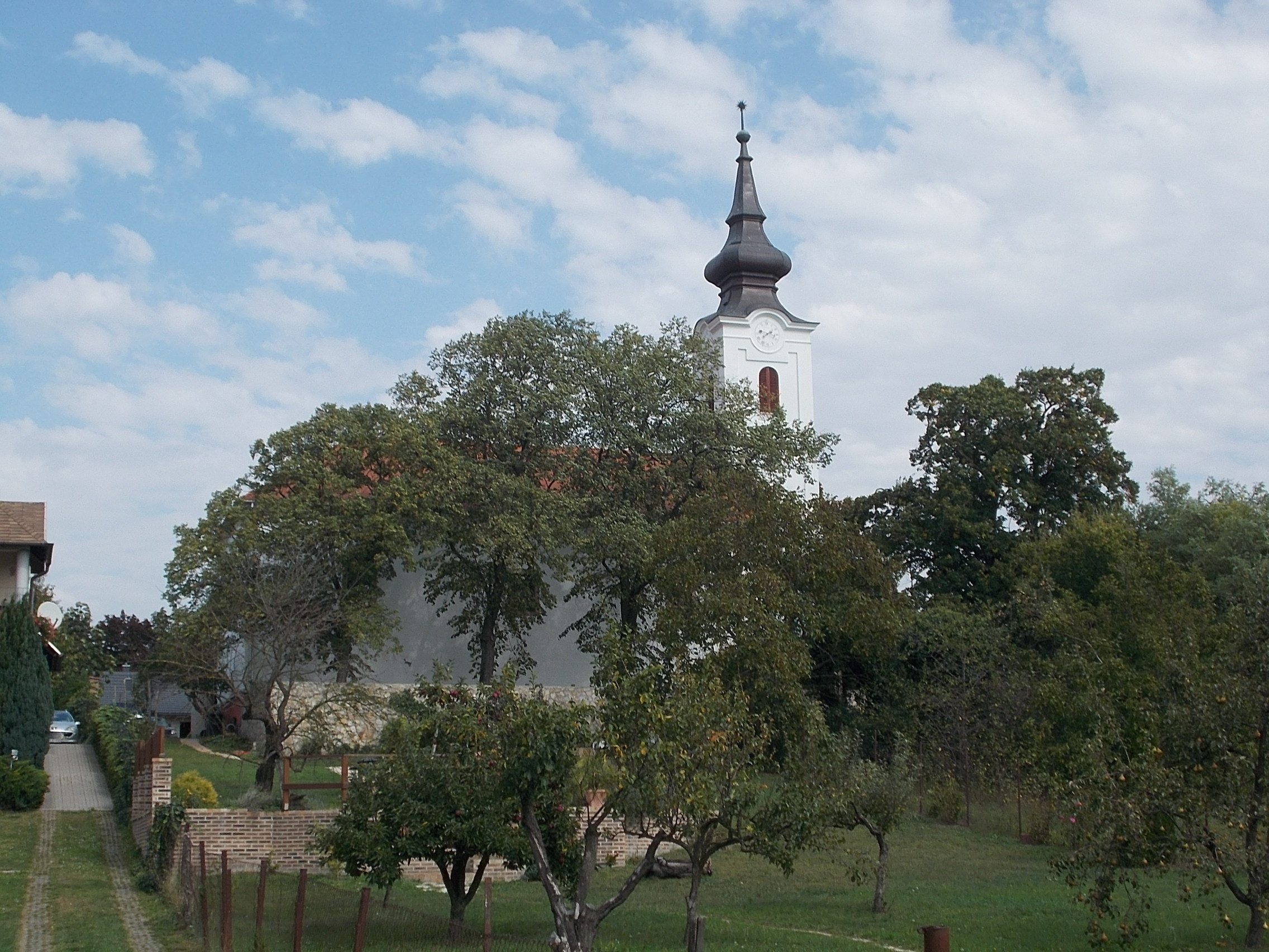 Kisvác Reformed Church. Listed ID 7558. - 4 Takács Ádám Lane, Vác, Pest County, Hungary